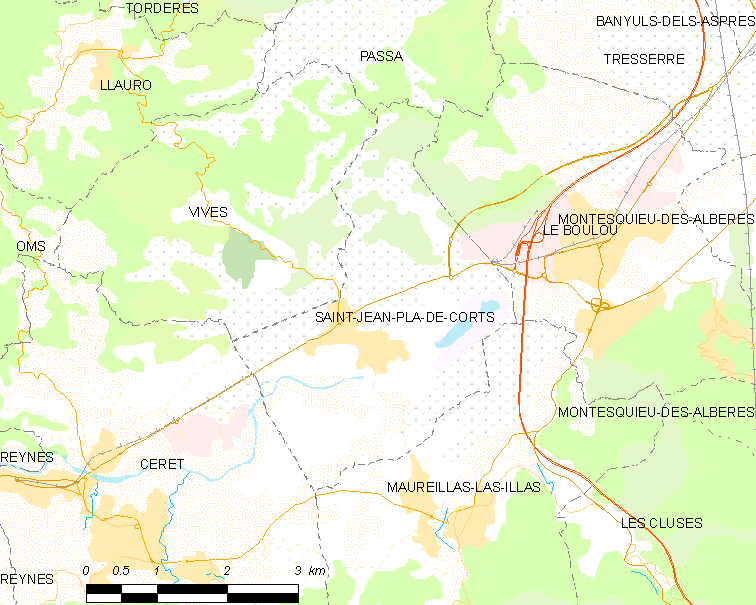 Map of French municipality